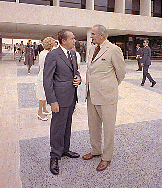 U.S. President Richard Nixon (left) standing with former president Lyndon Johson outside the LBJ Library in Austin, Texas, 05/22/1971